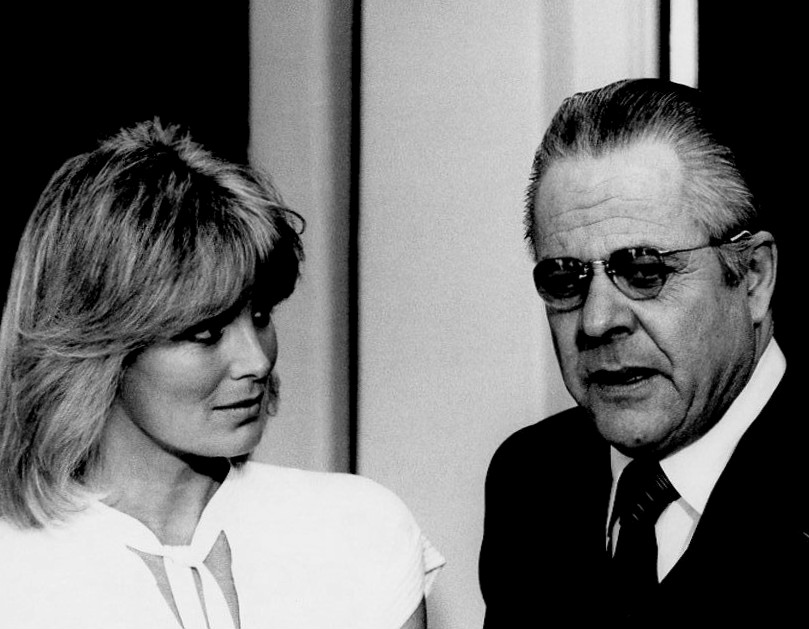 Photo of Linda Evans and William Windom from the television series Hunter. This is not the later television series of the same name Hunter (U.S. TV series), starring Fred Dryer. The male star of this series was James Franciscus as James Hunter; Evans played Marty Shaw on the show. The show premiered in 1976 and about 8 of the 13 filmed episodes aired before it was canceled.